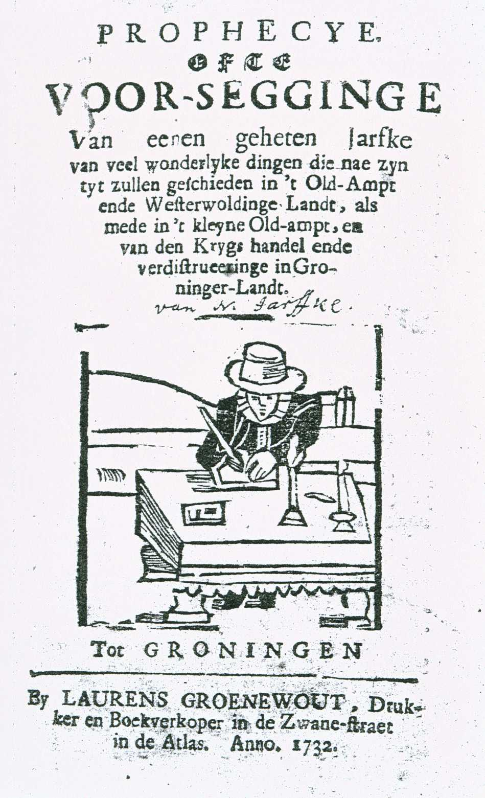 Pamflet published in 1732